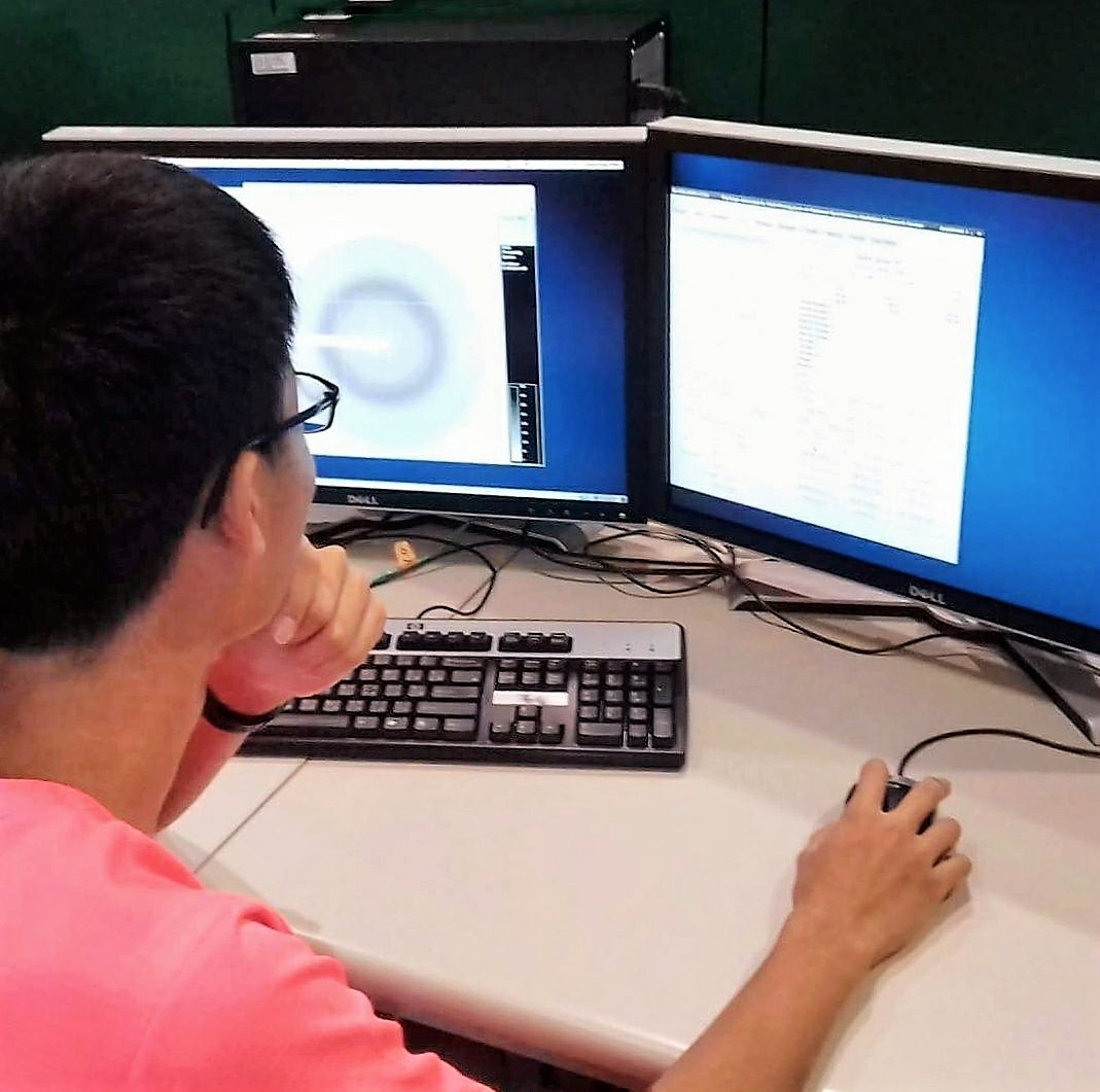 A Taiwanese high school student is conducting a X-ray diffraction test for his science research project at National Synchrotron Radiation Research Center, Taiwan. The student was enrolled in the Math and Science Gifted Class at National Wuling Senior High School, Taiwan. In Taiwan, special education for the gifted often includes joint research programme with local universities.